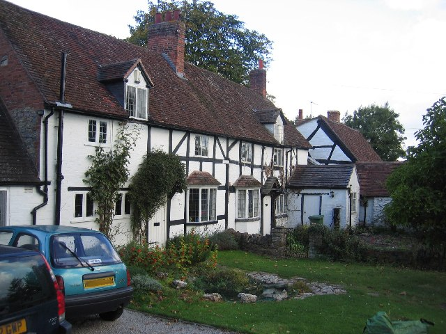 The Croft, Wilmcote. Old timber framed cottages, complete with outdoor pumps for water, next door to the church.